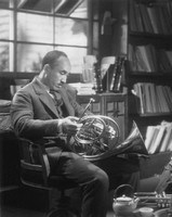 Osamu Takizawa in 1938 Japanese movie Seiki no Gassho, Aikoku Koushinkyoku (Chorus of the Century, Patriotic March).